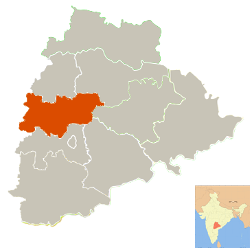 Medak district in Telangana (Officially from 2nd June 2014)